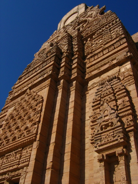 Teli-ka-Mandir (11th century Hindu temple) at Gwalior (Madhya Pradesh, India)